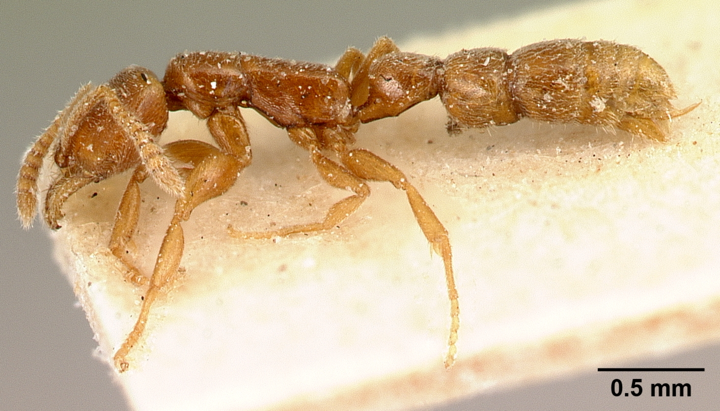 Specimen of Xymmer muticus